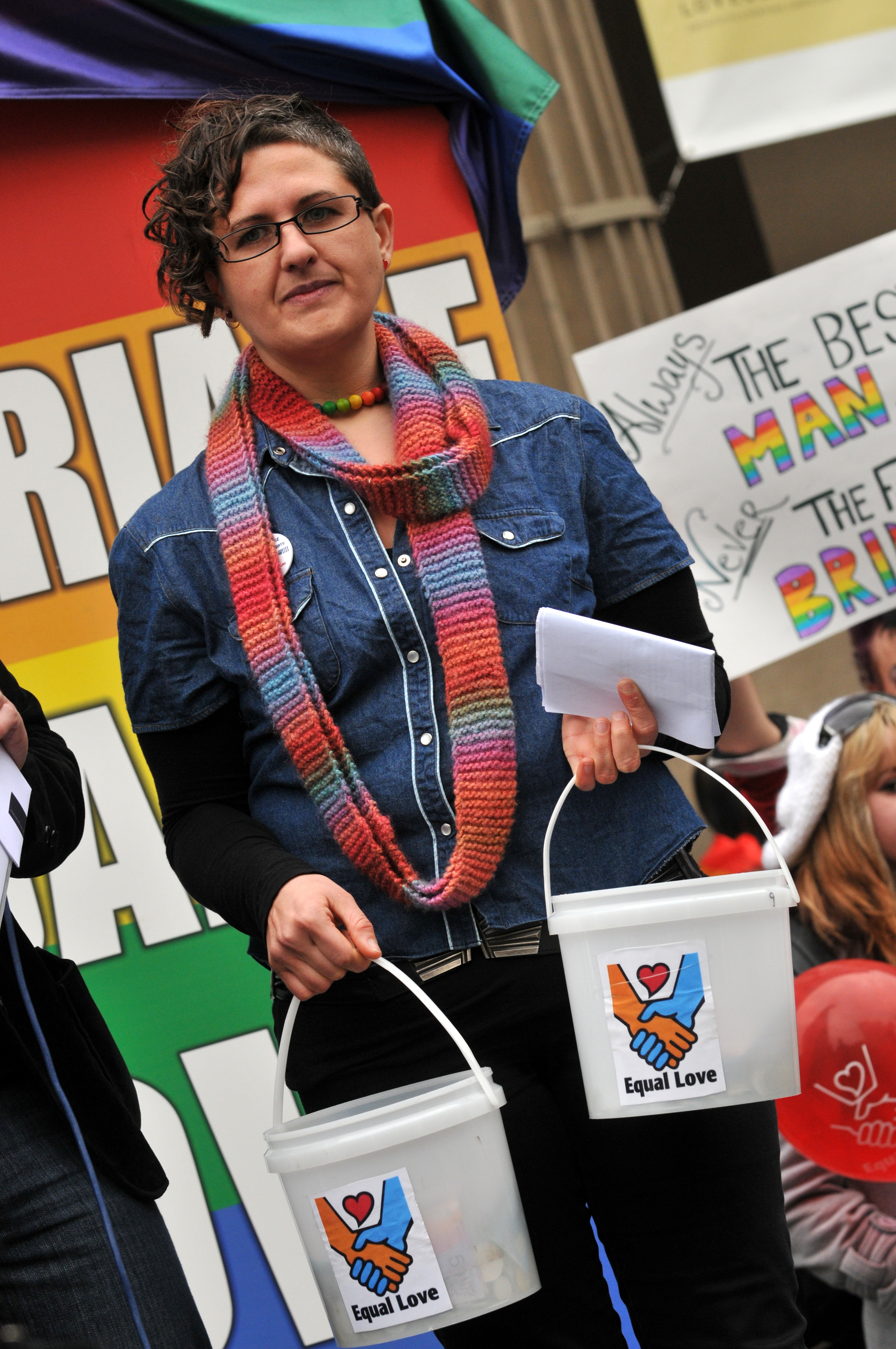 Equal Love Convenor Ali Hogg at the August 2011 Rally in Melbourne holding fund-raising buckets